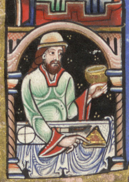 "Feasting", folio 1r, detail from the Hunterian Psalter, Glasgow University Library MS Hunter 229 (U.3.2)